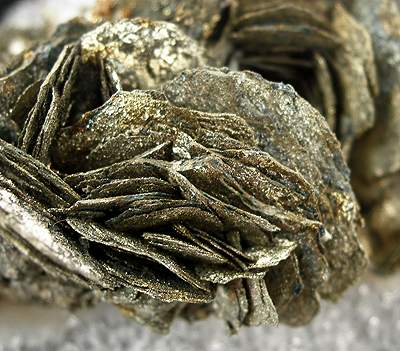 Marcasite Locality: Roşia Montanã (Verespatak; Vöröspatak; Goldbach), Alba County, Romania (Locality at ) Size: 4.8 x 3.3 x 2.3 cm. I have not myself seen such a superb specimen of marcasite from this important, ancient gold mining district. Although known for 2000 years, we only know of specimens from a small period of time in the 1700s to 1800s, mainly. So much was lost. And of what survives, it is no wonder that people saved golds over marcasite. This specimen is a rarity. It has a rich metallic-shimmering look to it, quite different and more elegant than marcasite from France or Trepca to my eye. Ex. Harold Urish Collection.